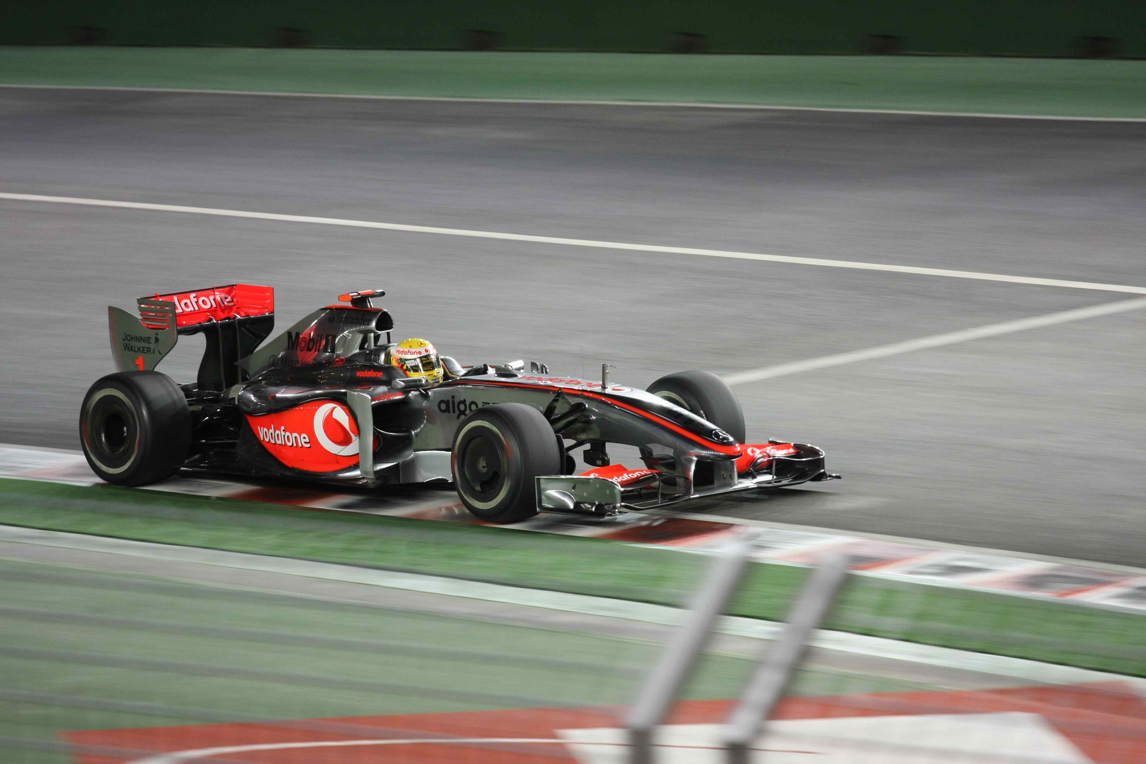 Lewis Hamilton driving for McLaren at the 2009 Singapore Grand Prix.